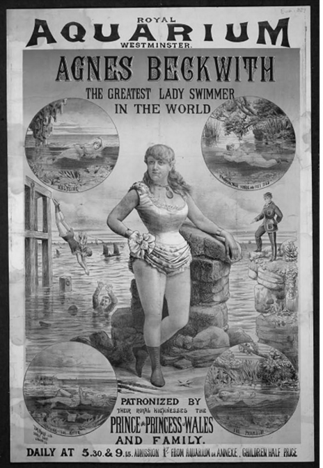 Agnes Beckwith - Greatest Woman Swimmer in the World - advert around 1885 for her. This is by Tom Merry (William Mecham (1853 – 21 August 1902) ) - Advert for appearance in the Royal Aquarium, Westminster